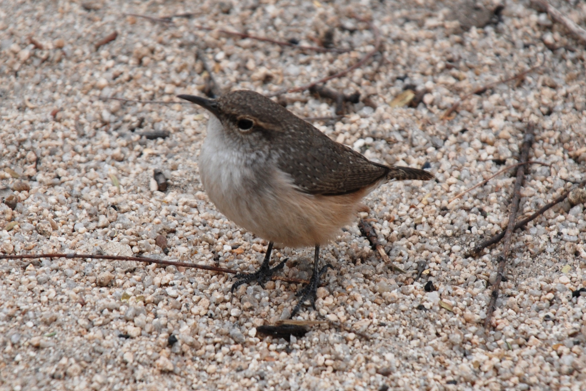 Rock Wren (Salpinctes obsoletus) in Joshua Tree National Park at Hidden Valley Campground